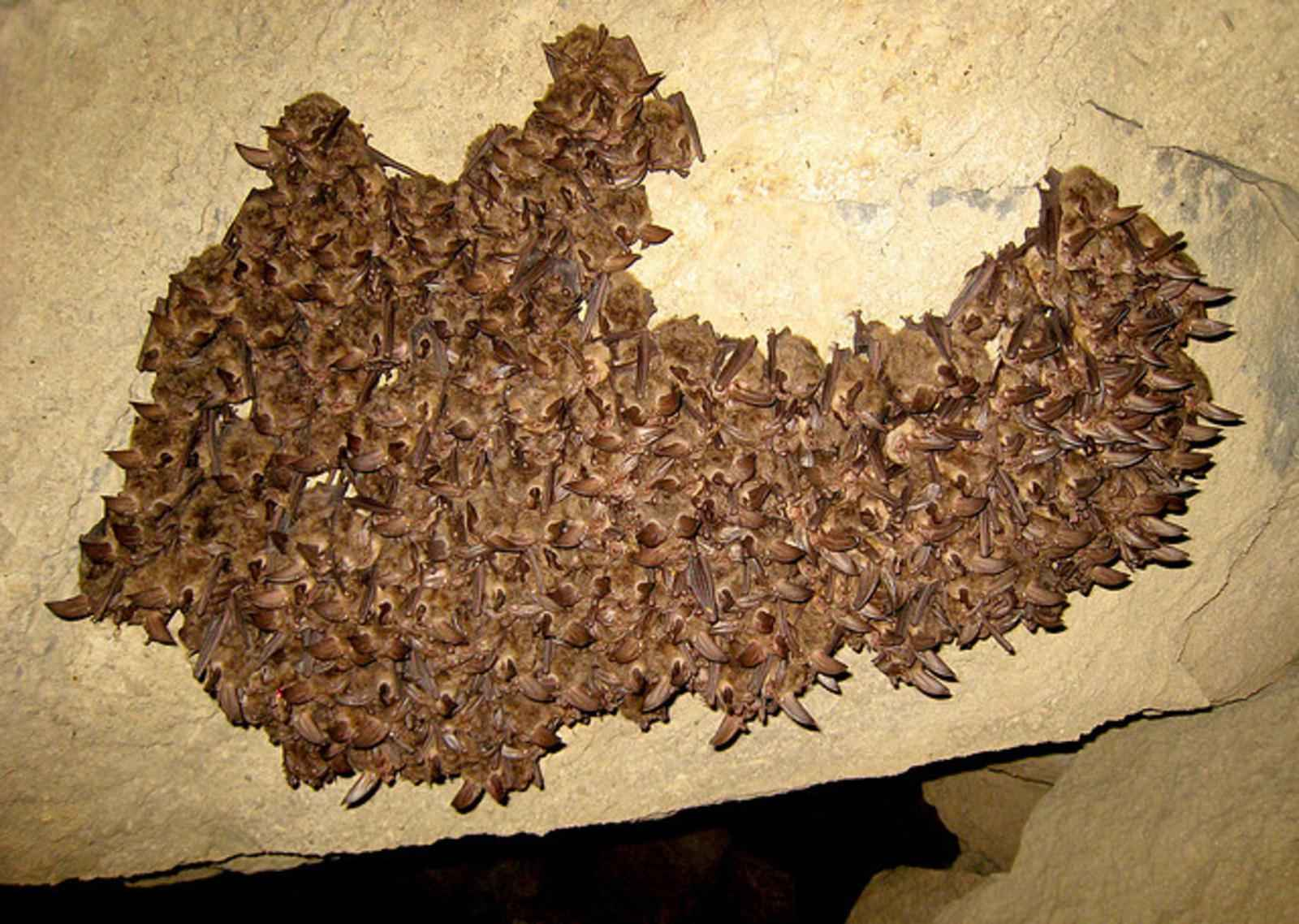 Image title: Cluster of hibernating virginia big eared bat corynorhinus townsendii Image from Public domain images website